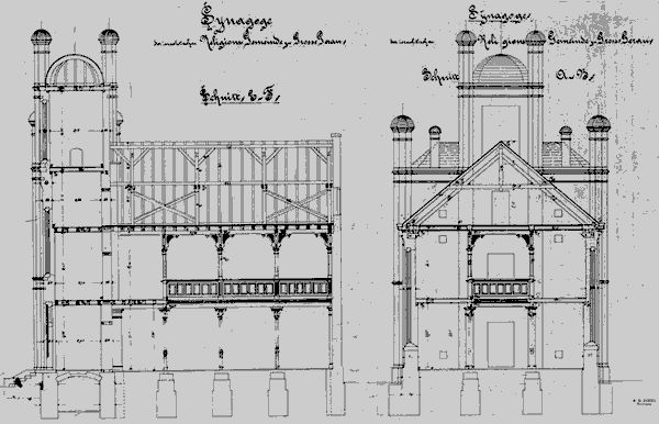 Architect drawing of the synagogue of Gross-Gerau, built in 1892.